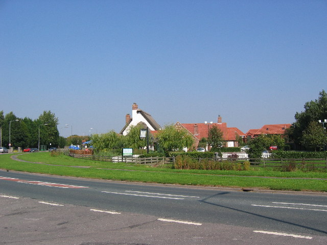 Warton Arms, Woodmansey in the East Riding of Yorkshire, England.This view across the A1174 heading for Beverley of Warton Arms and new housing in this corner of Woodmansey.